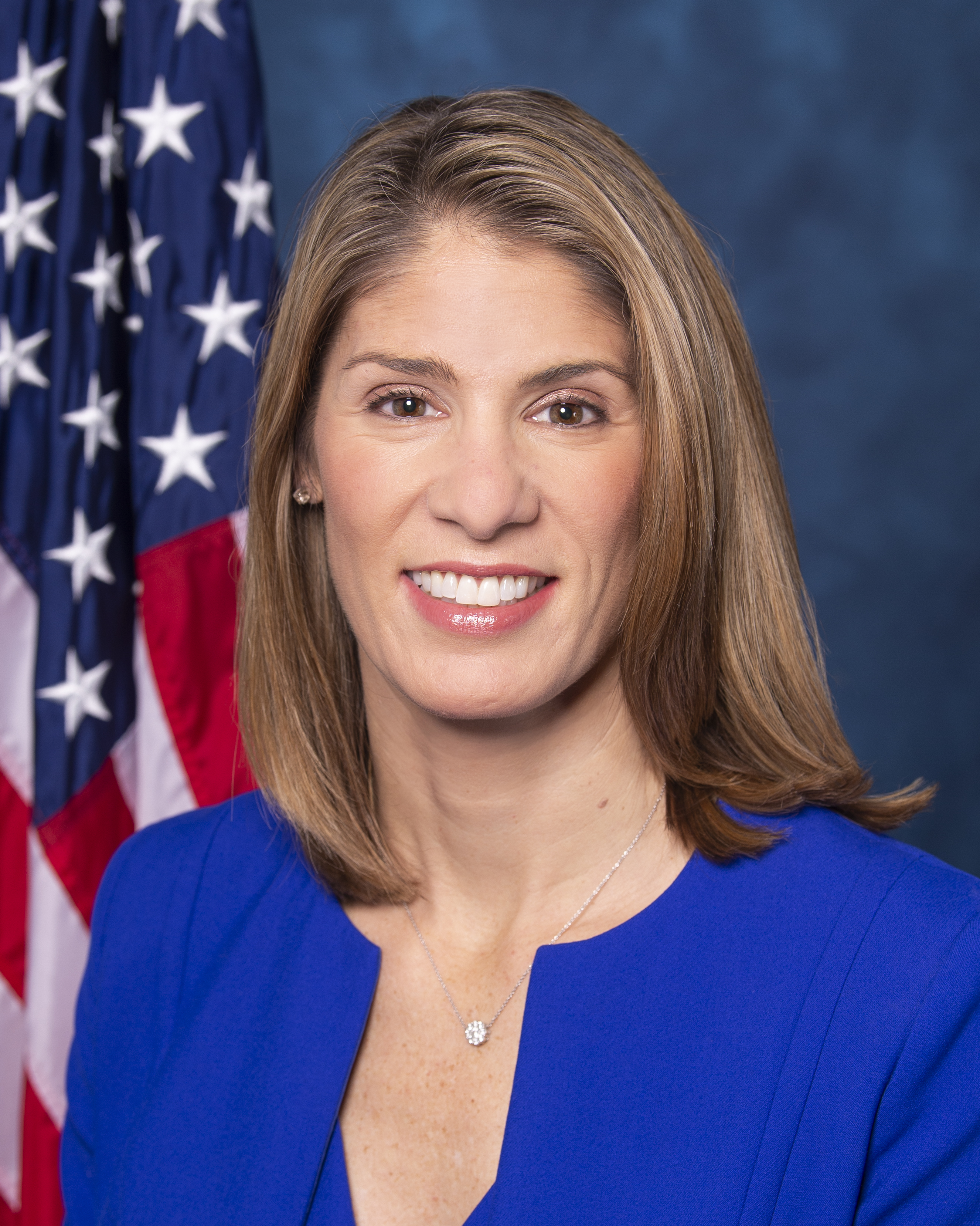 The official headshot of Rep. Lori Trahan (D-MA)